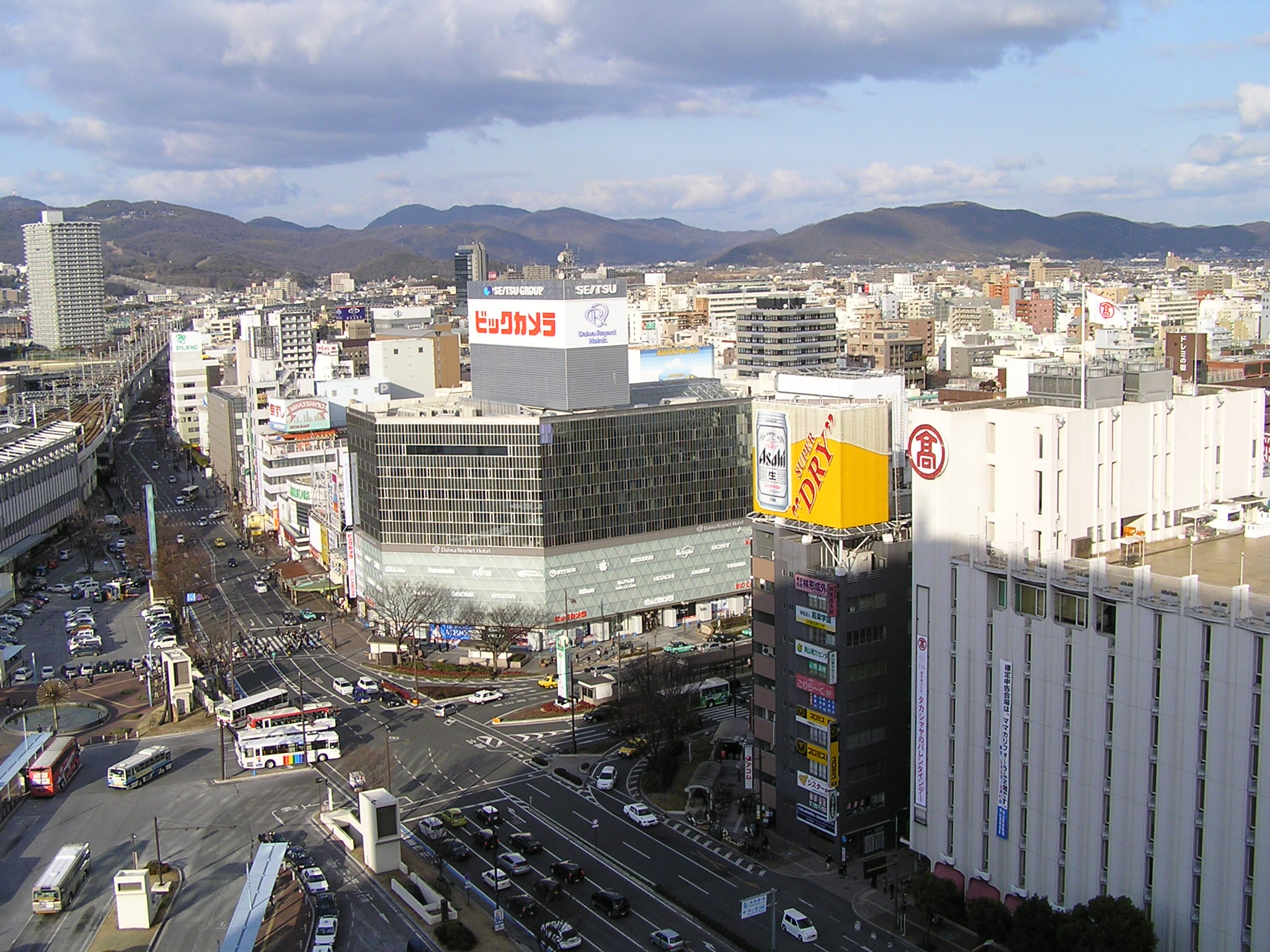 Appearance in Okayama Station eastward exit